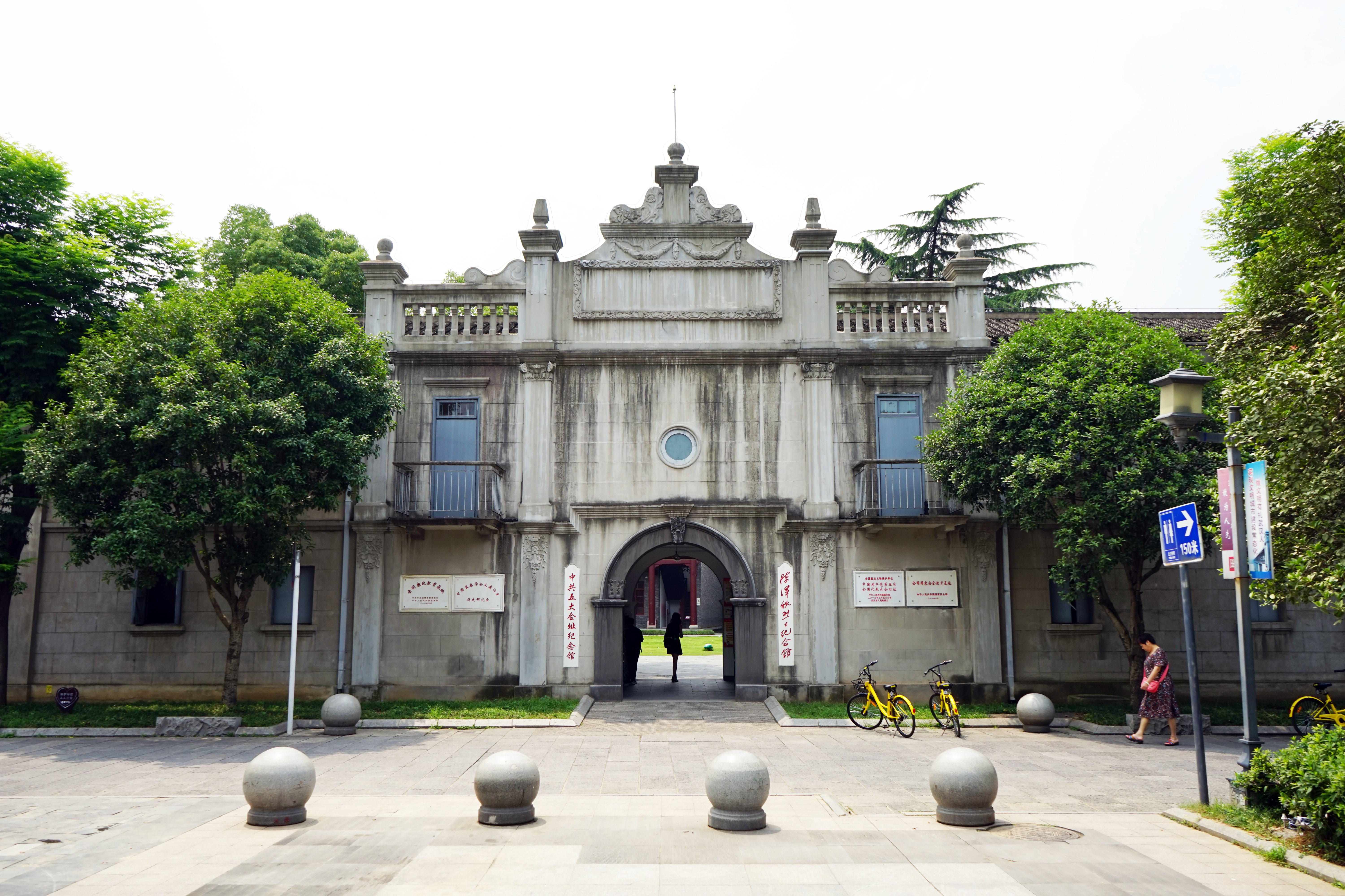 五大会址大门